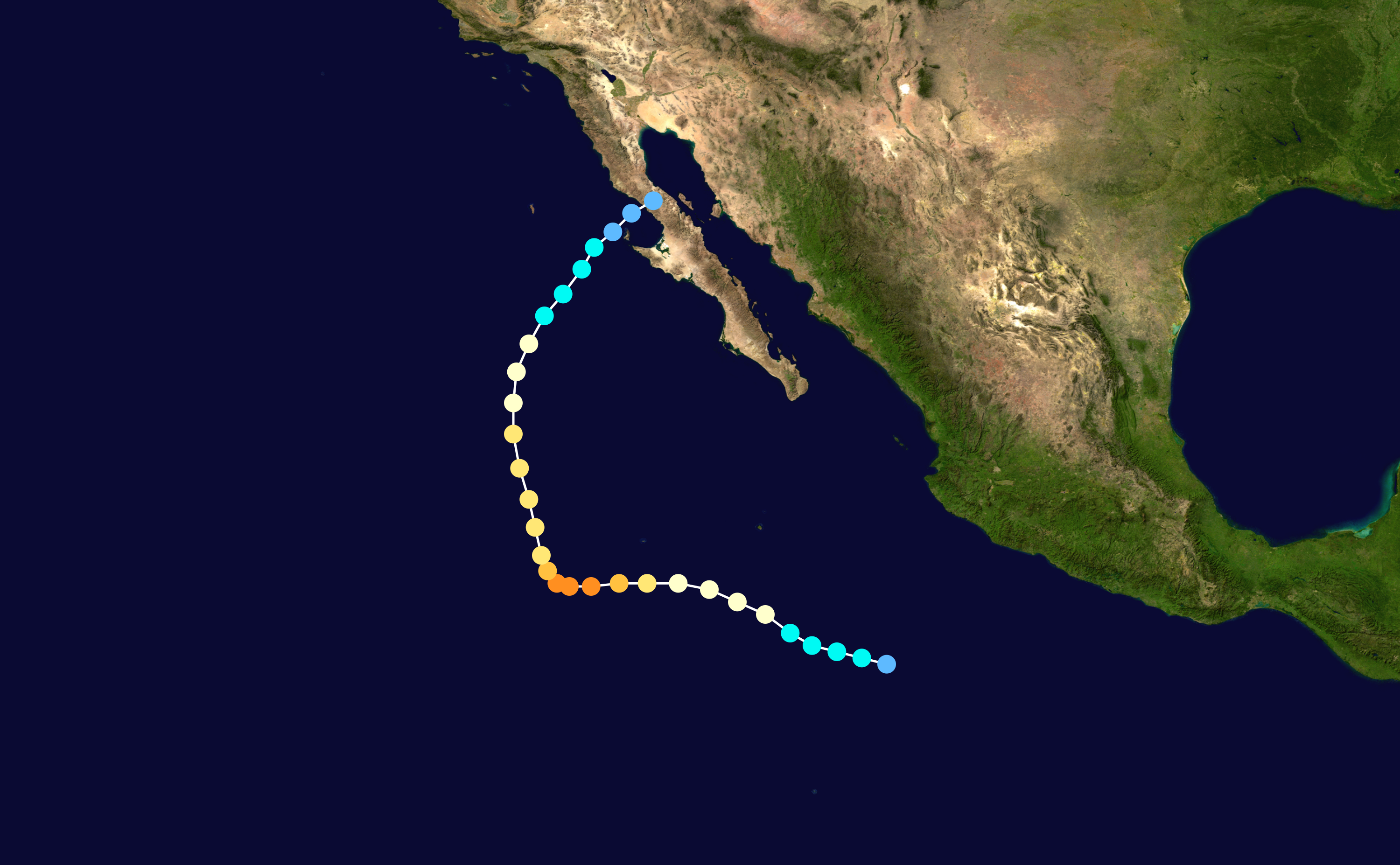 Track map of Hurricane Rosa of the 2018 Pacific hurricane season. The points show the location of the storm at 6-hour intervals. The colour represents the storm's maximum sustained wind speeds as classified in the Saffir–Simpson scale (see below), and the shape of the data points represent the nature of the storm, according to the legend below. Saffir–Simpson scale Tropical depression≤38 mph≤62 km/h Category 3111–129 mph178–208 km/h Tropical storm39–73 mph63–118 km/h Category 4130–156 mph209–251 km/h Category 174–95 mph119–153 km/h Category 5≥157 mph≥252 km/h Category 296–110 mph154–177 km/h Unknown Storm type Tropical cyclone Subtropical cyclone Extratropical cyclone / Remnant low / Tropical disturbance / Monsoon depression